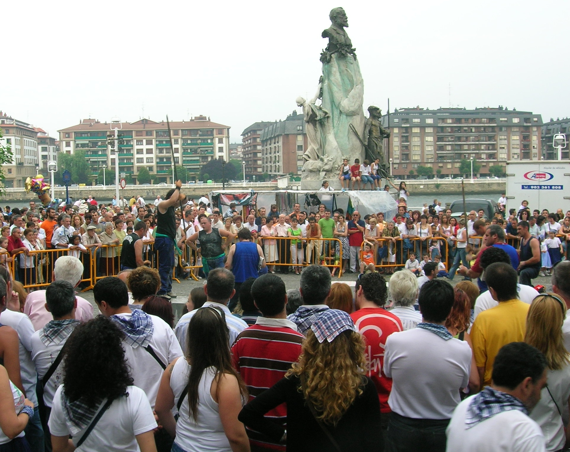 Stone drilling contest in Portugalete, Biscay.